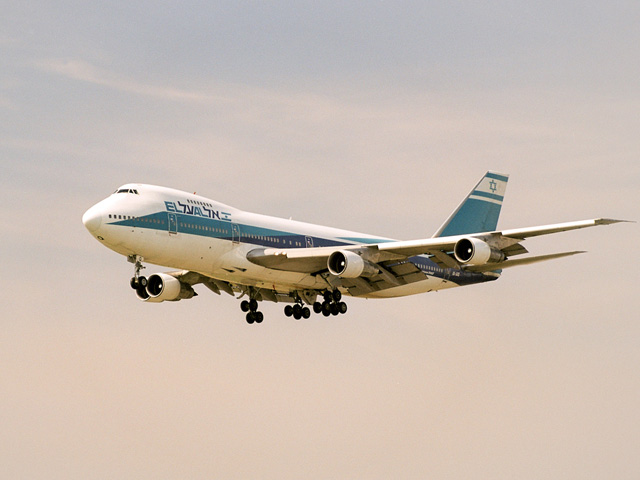 Boeing 747-200 of El Al, Israeli airlines (registration number 4X-AHQ). Landing approach to runway 11 at Warszawa Okęcie airport on August 24th, 2004. The paint style on this airplane is historic now and not used for El Al's newer aircrafts.